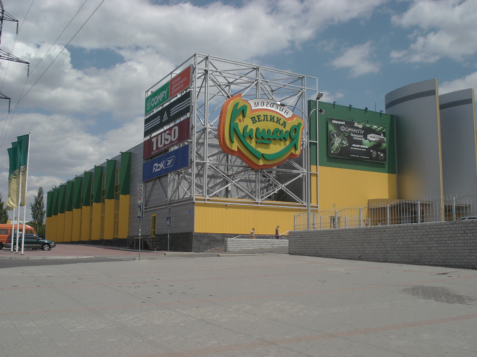 Hypermarket, Mykolaiv